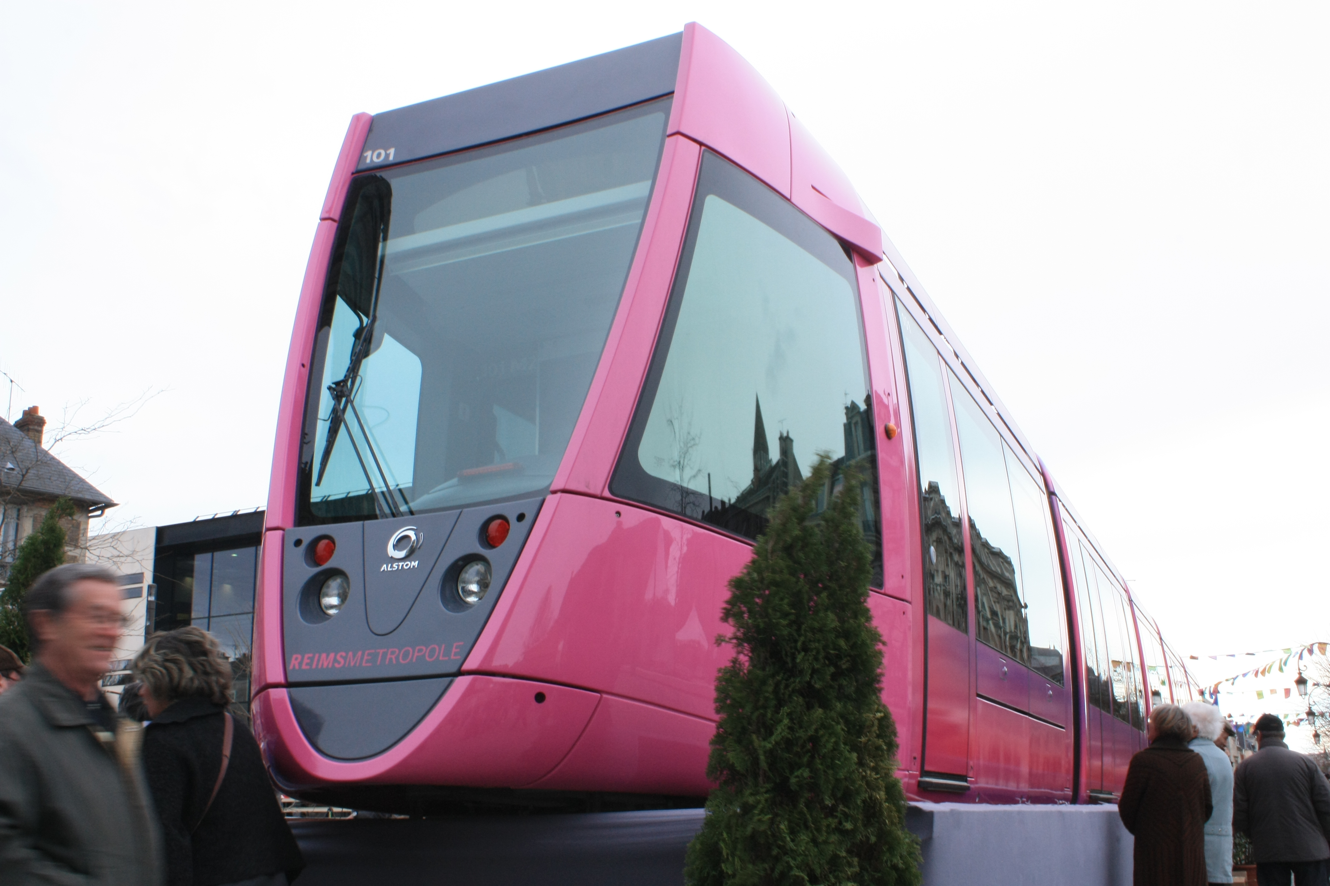 Reims' Tramway #101 on an exhibition